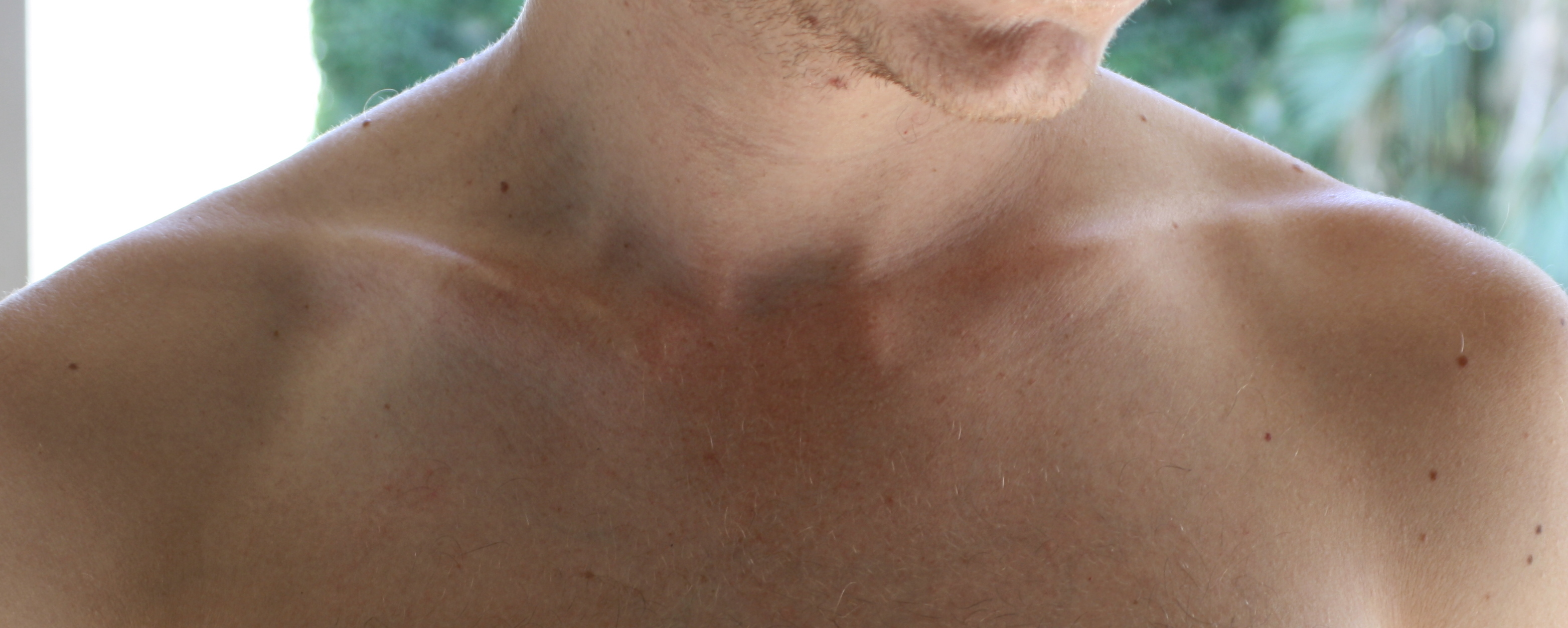 Clavicle